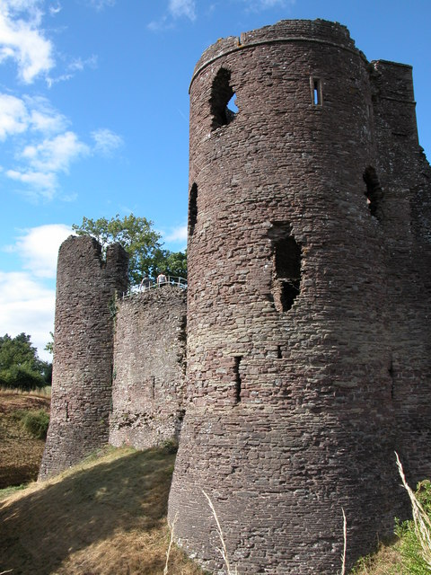 Grosmont Castle